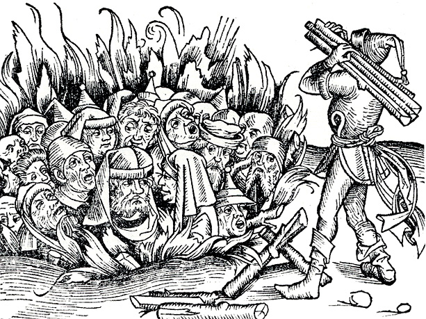 Jews burned alive for the alleged host desecration in Deggendorf, Bavaria, in 1338, and in Sternberg, Mecklenburg, 1492; a woodcut from the Nuremberg Chronicle (1493)